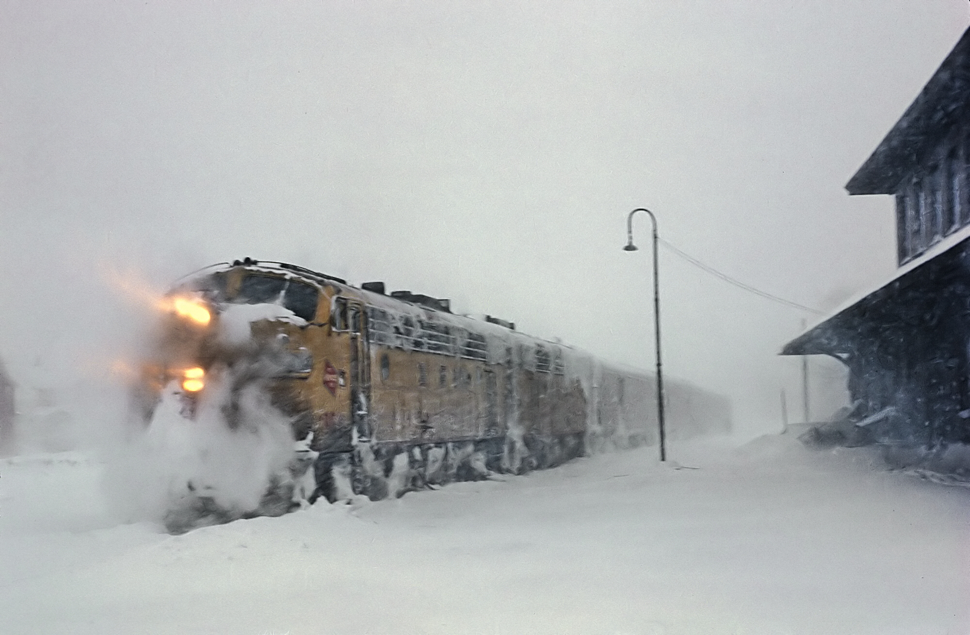 This is from Roger Puta's Winterail slide program First Class, A Study in Lighting. It is certainly about light. SOO Line Train 2, The Copper Country Limited, waiting for departure at Calumet, MI on January 7, 1967 (49 years and 2 days ago). Note: all MILW equipment.